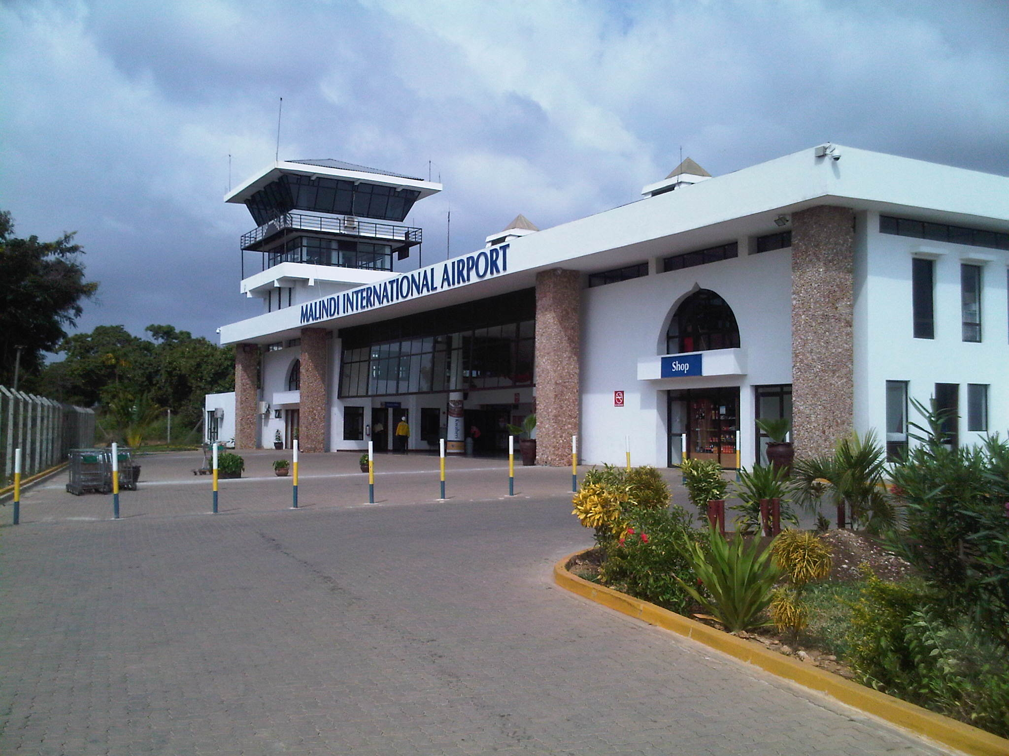 View of the terminal building and control tower at Malindi International Airport, Kenya.